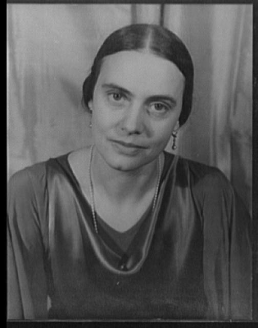 Title: Portrait of Gertrud Wettergren Abstract/medium: 1 photographic print : gelatin silver.